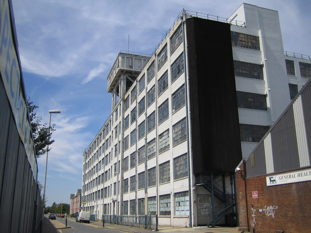 Hayes Town: Enterprise House, Blyth Road. A large works building at 133 Blyth Road, in multi-occupancy use. I think this is the front of the building in 76748